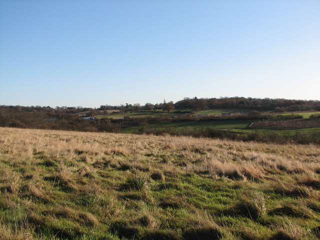 Tylers Common, London Borough of Havering Looking east to the M25. Photo by B. F. Jones.